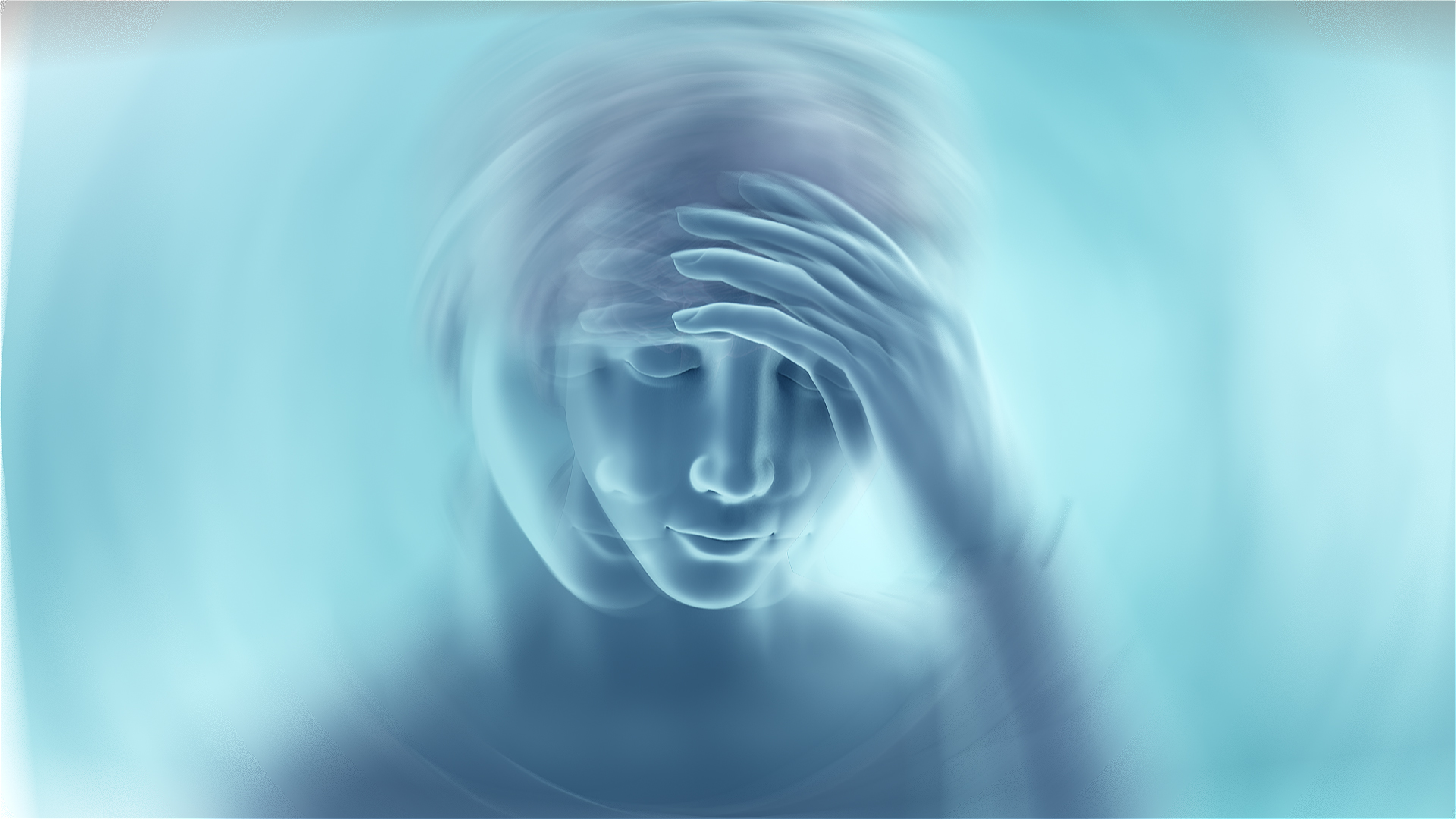 3D medical animation still showing sensation of spinning while stationary or vertigo.